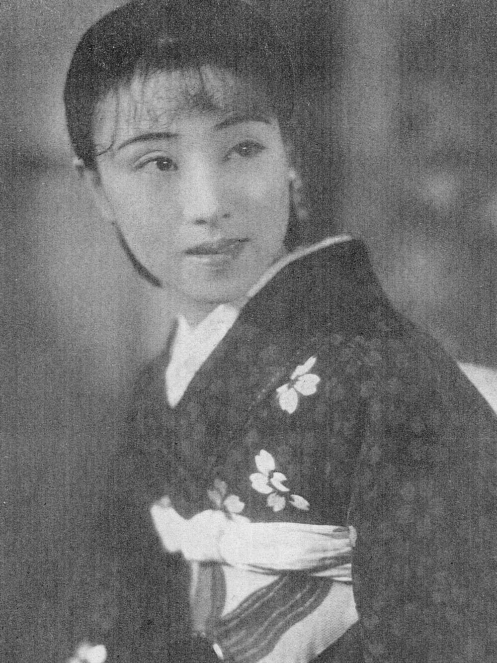 Portrait of the Japanese actress Fujiko Fukamizu